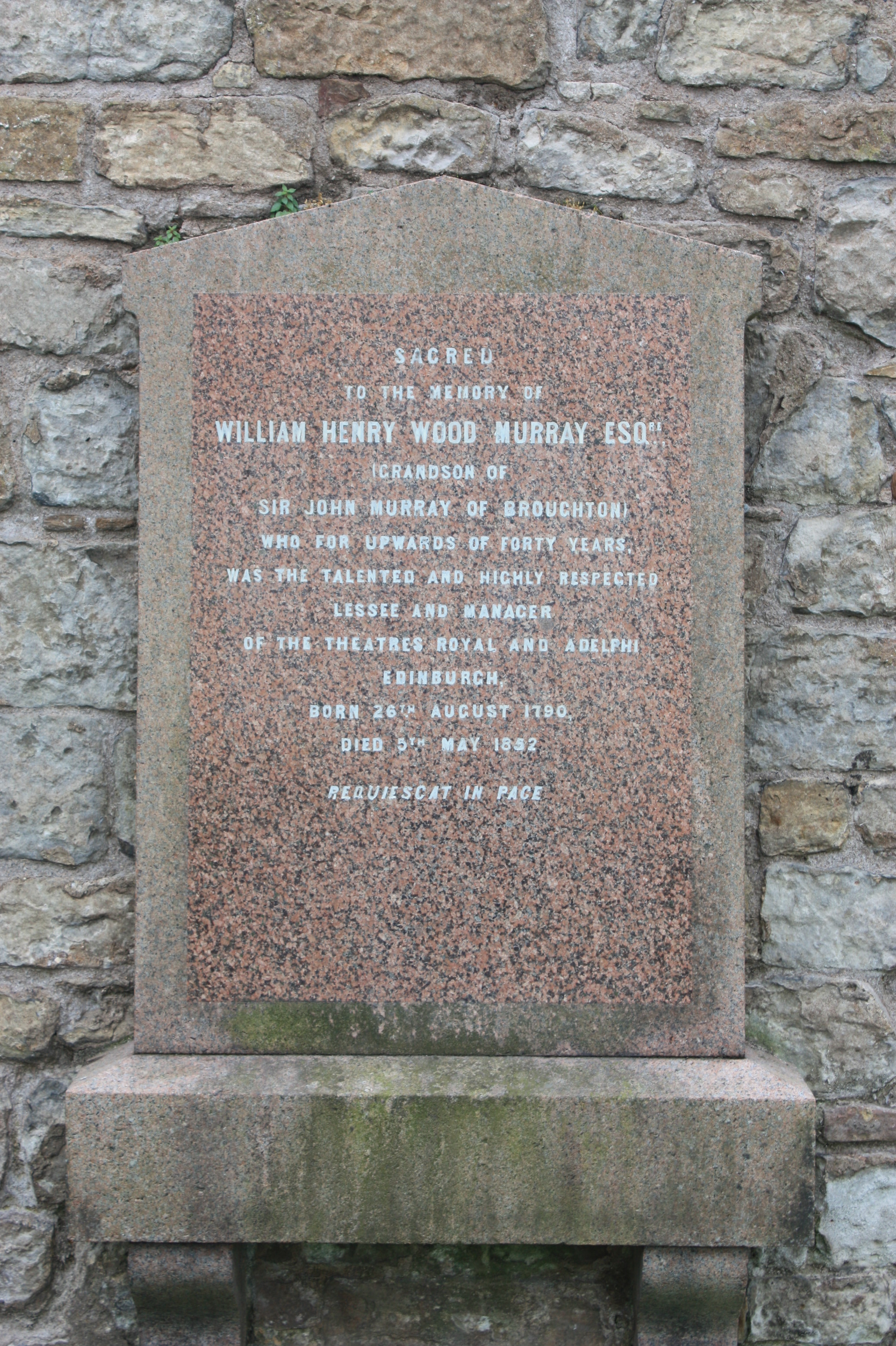 The grave of William Henry Wood Murray, St Andrews Cathedral churchyard